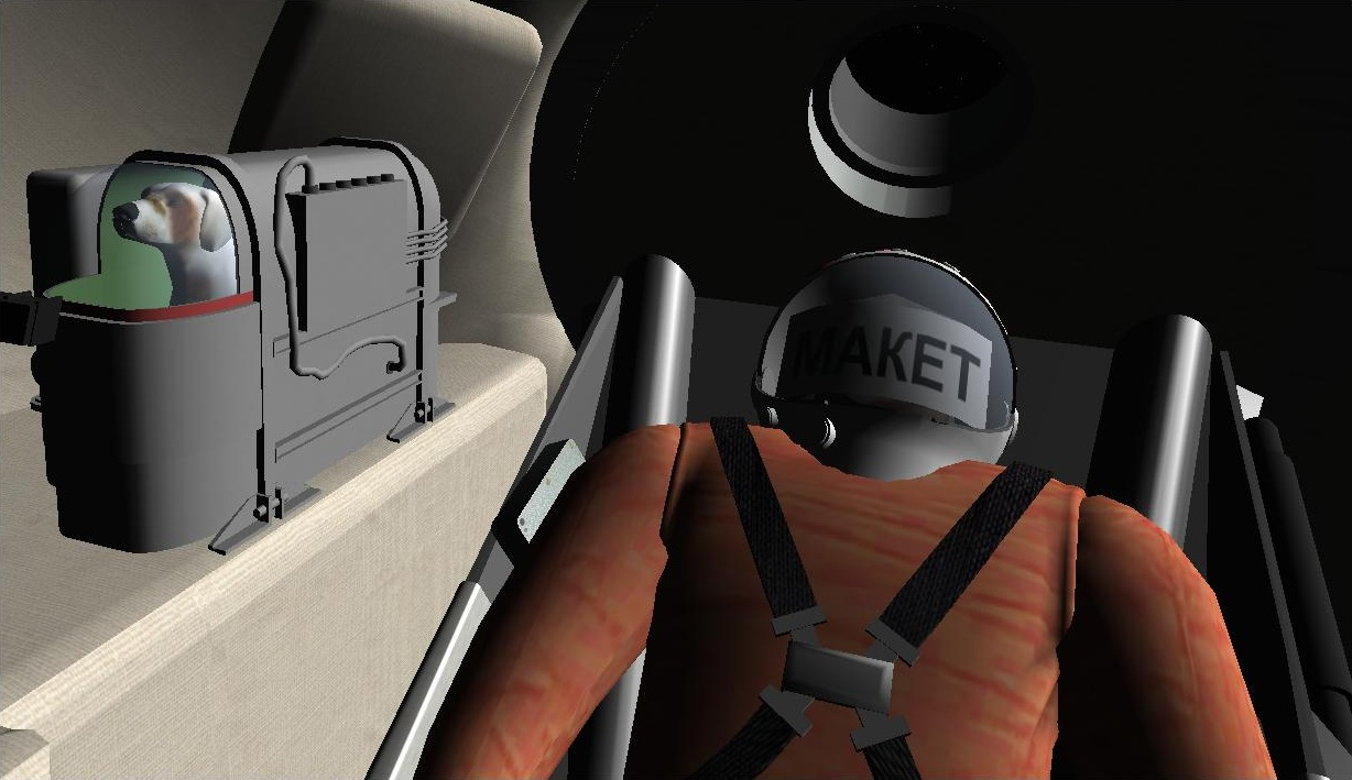 This picture shows an interior of Soviet Vostok-type spacecraft called Sputnik 10. On the left side is shown a female dog called Zvezdochka, on the right is famous dummy called Ivan Ivanovich, also used in Sputnik 9 flight. The picture is a screenshot from computer program called Orbiter 2010 + P1 Space Flight Simulator.